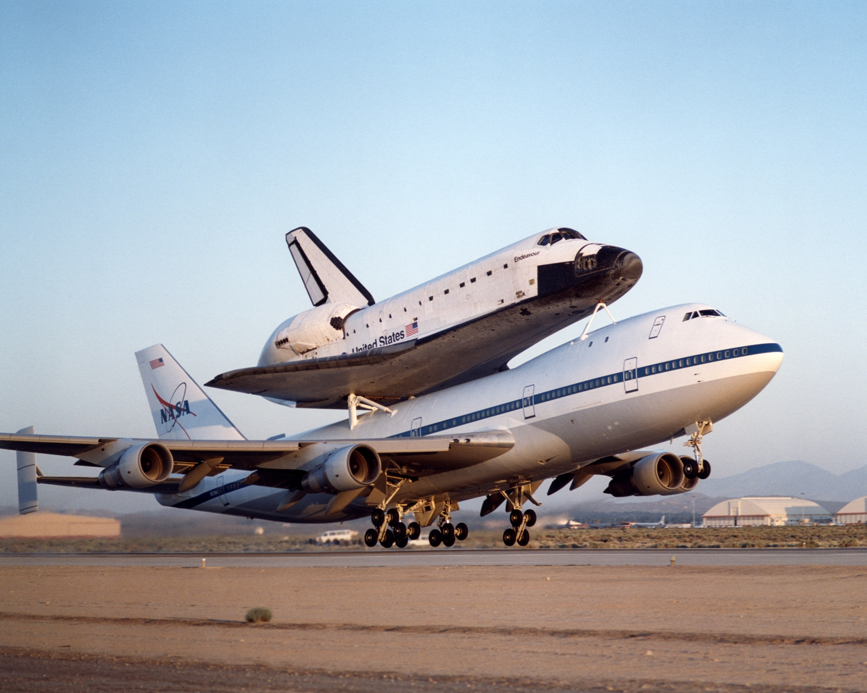 NASA's modified Boeing 747 Shuttle Carrier Aircraft with the Space Shuttle Endeavour on top lifts off from Edwards Air Force Base to begin its ferry flight back to the Kennedy Space Center in Florida.